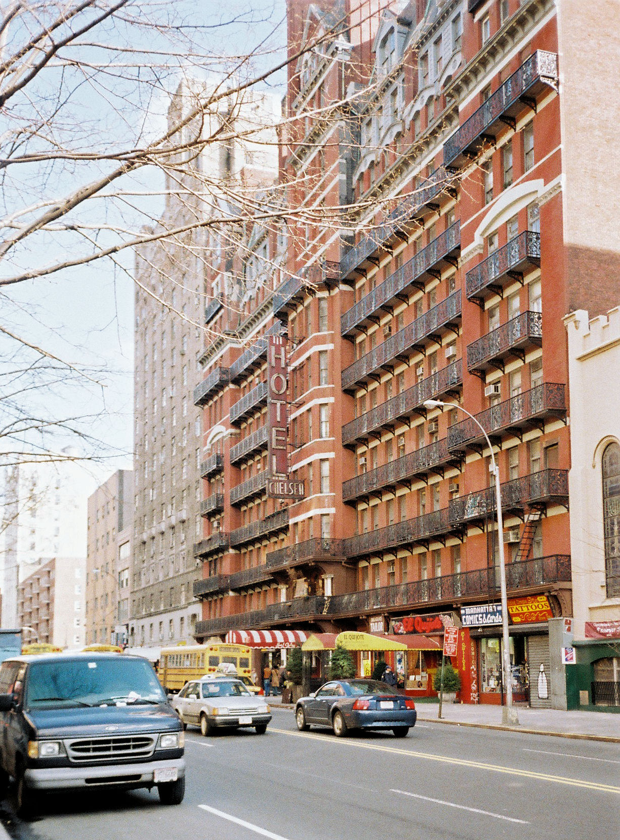 Street view of Hotel Chelsea